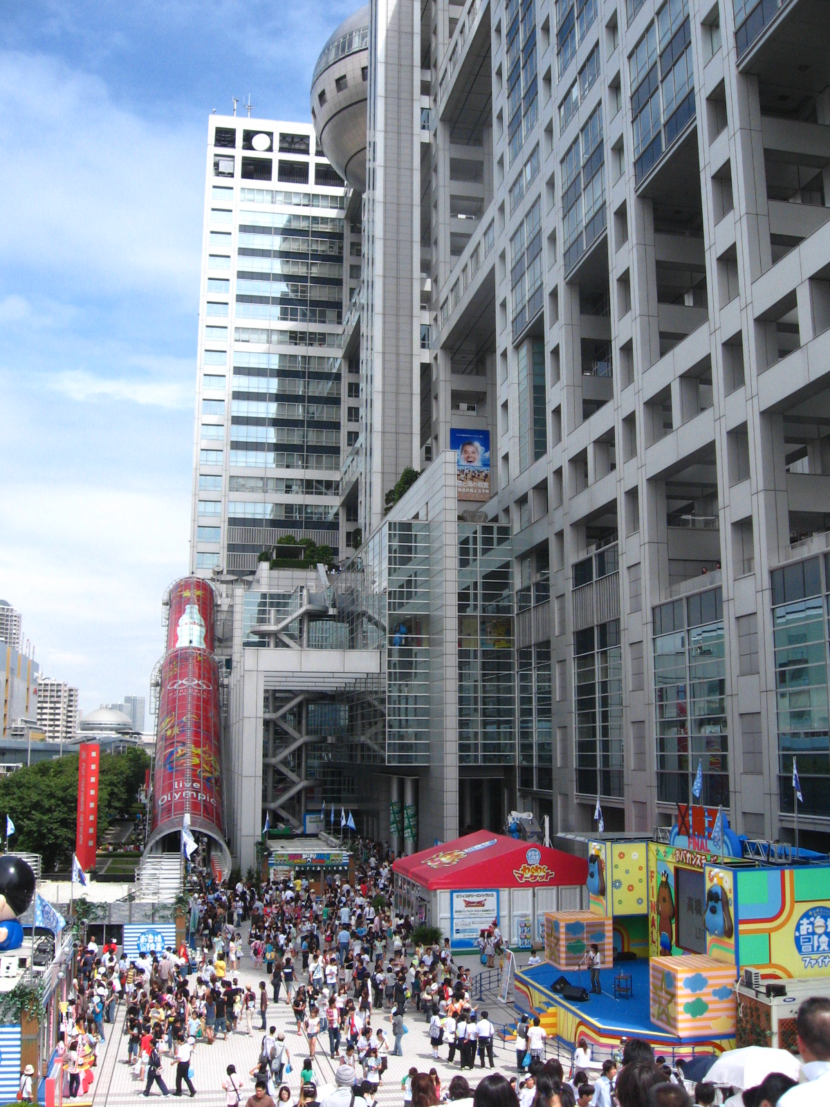 Odaiba Adventure King at 2003-2008.